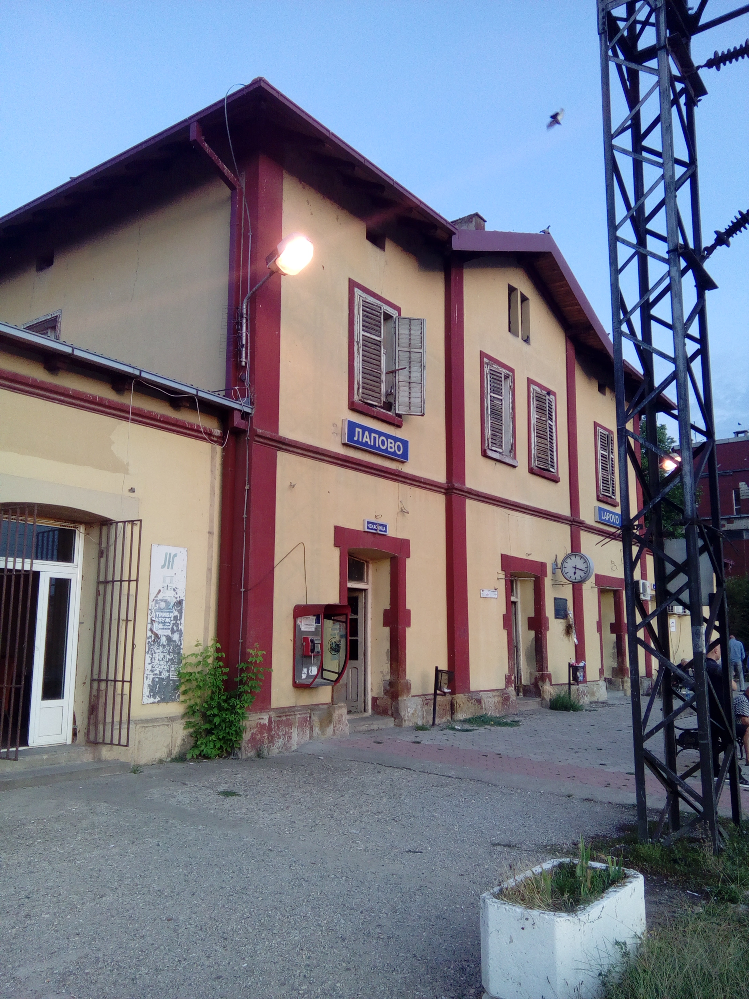 Lapovo train station Srpski (latinica): Železnička stanica Lapovo